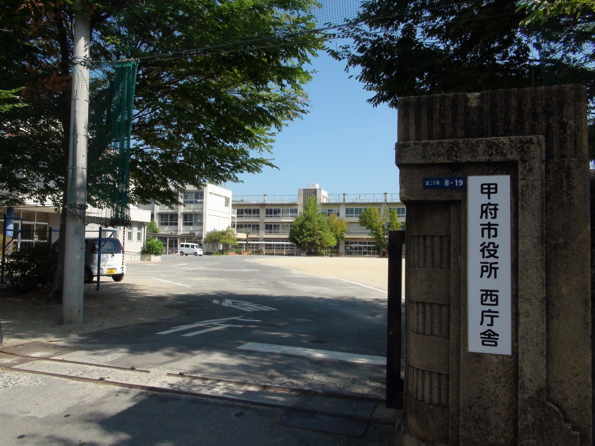 Kofu City Hall West Branch(formerly the Anagiri Elementary school)